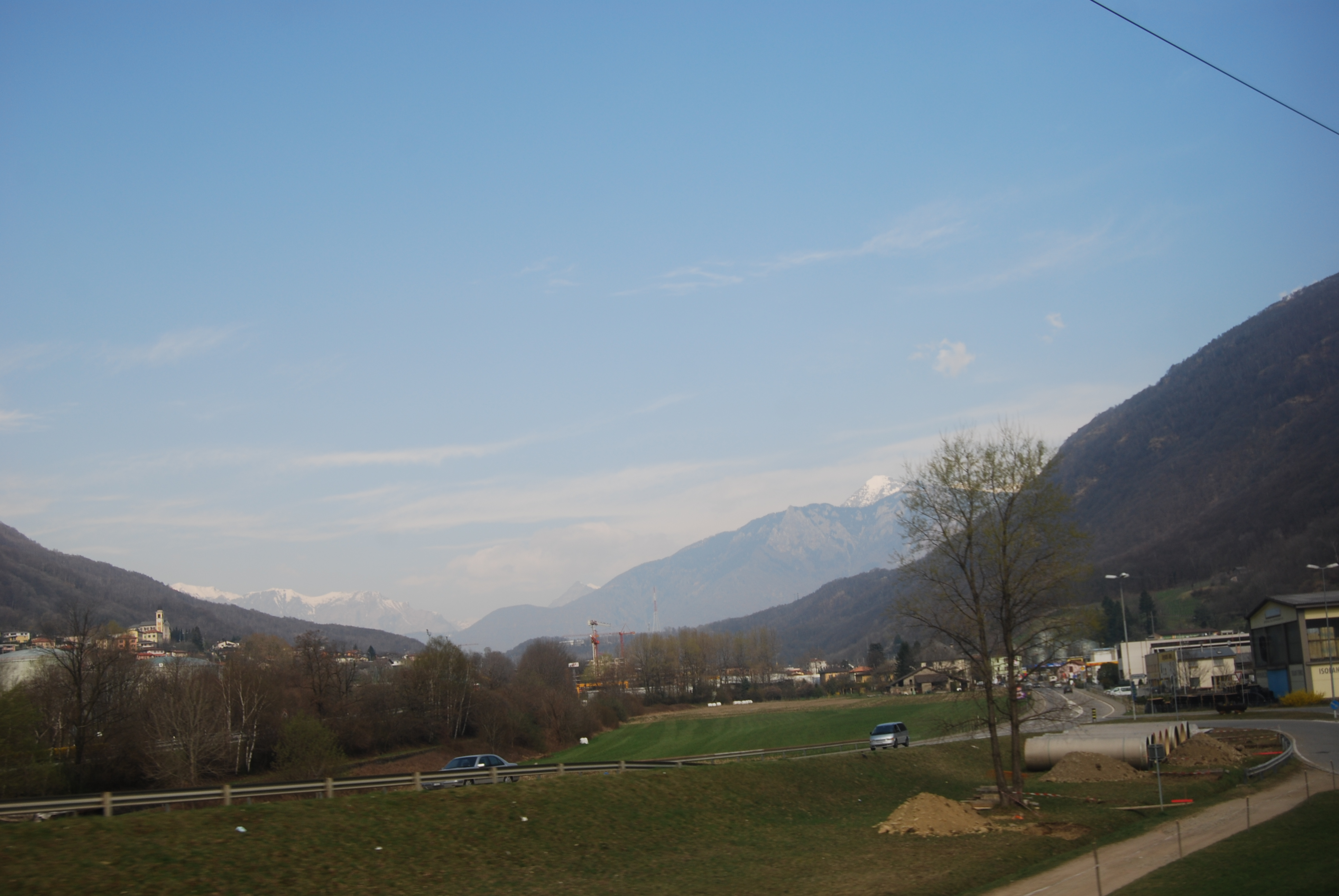 Mezzovico-Vira, canton of Ticino, SwitzerlandEsperanto: Mezzovico-Vira, Kantono Tiĉino, Svislando